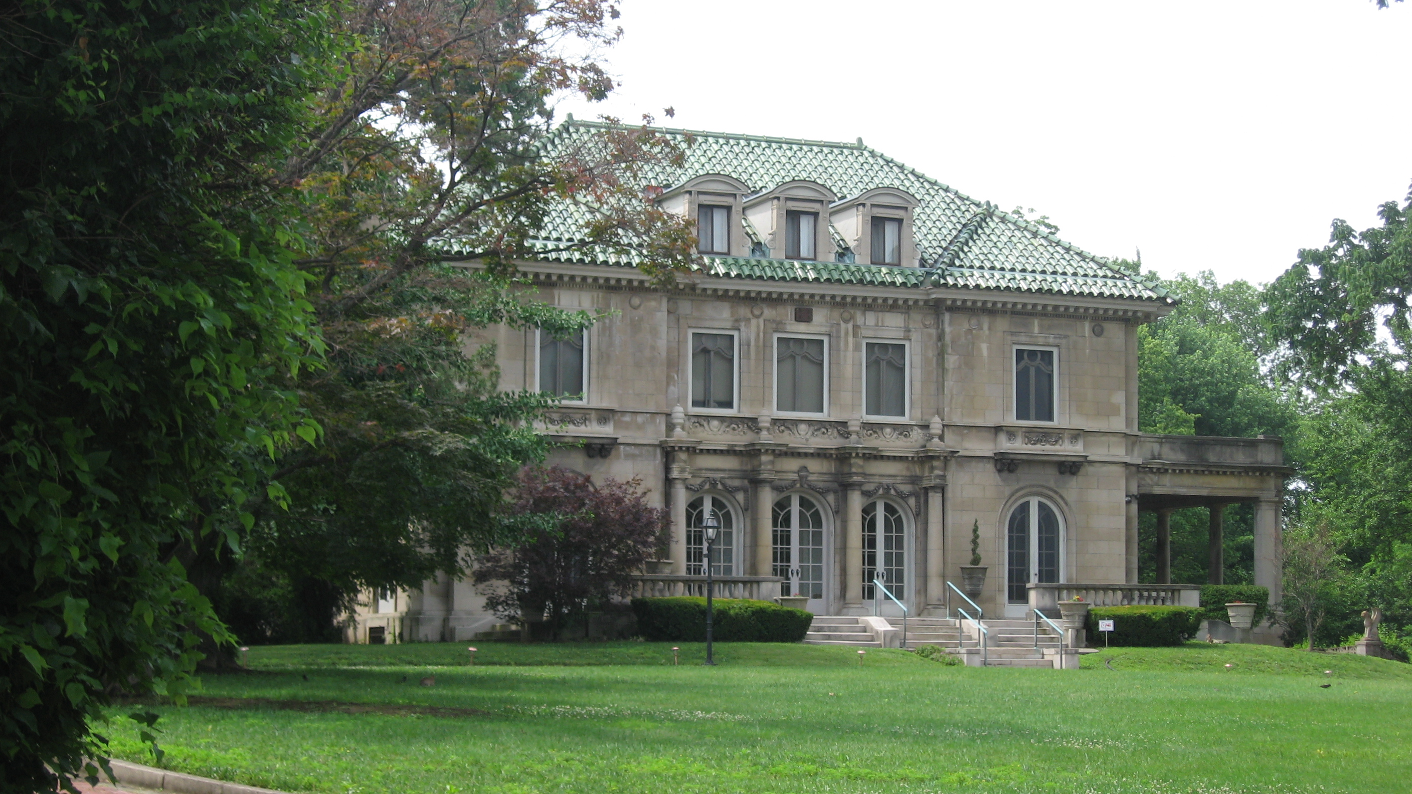 Front of the David and Mary May House, located at 3723 Washington Avenue in Cincinnati, Ohio, United States. Built in 1910, it is listed on the National Register of Historic Places.